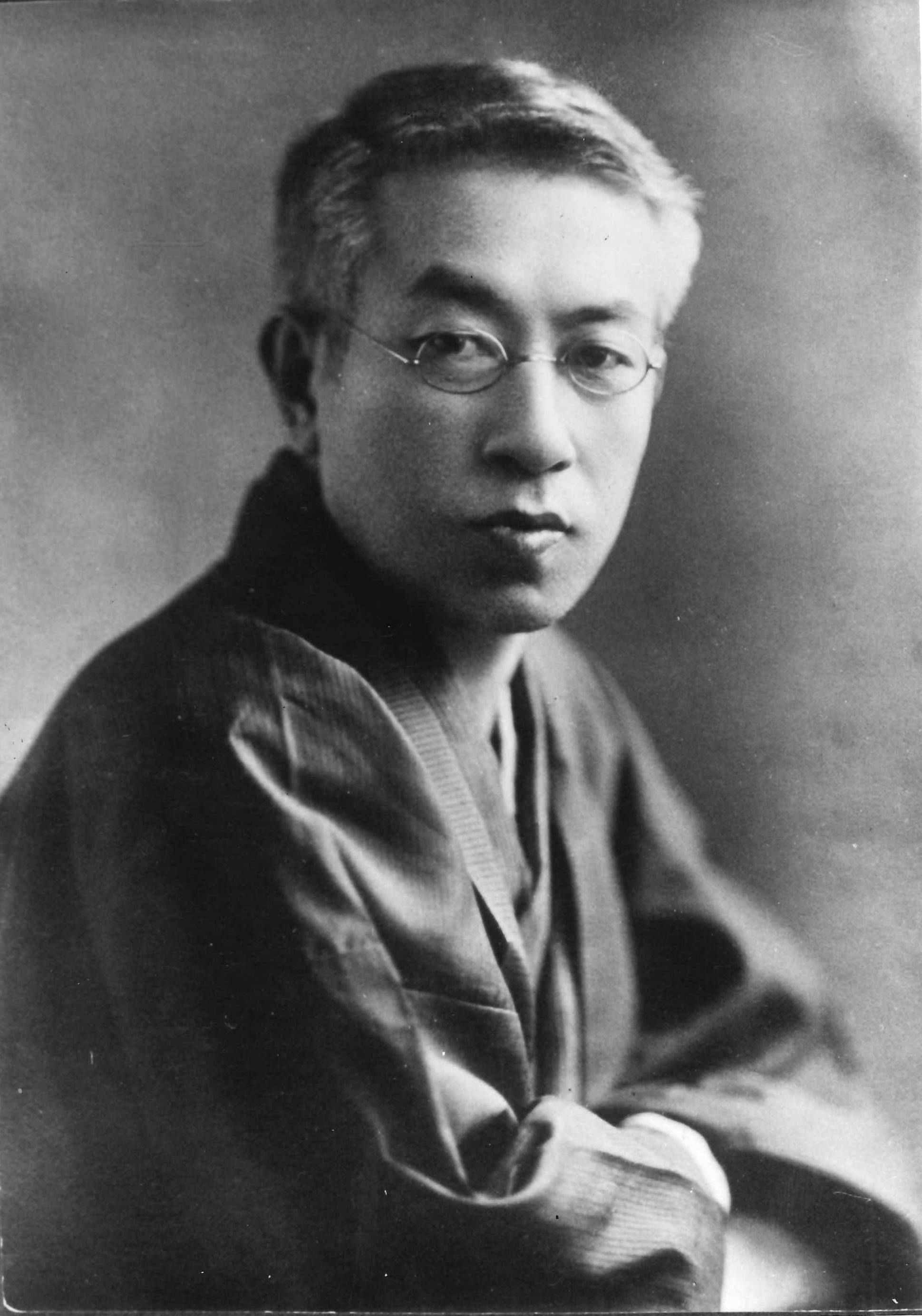 Japanese author Shimazaki Toson (1872-1943)